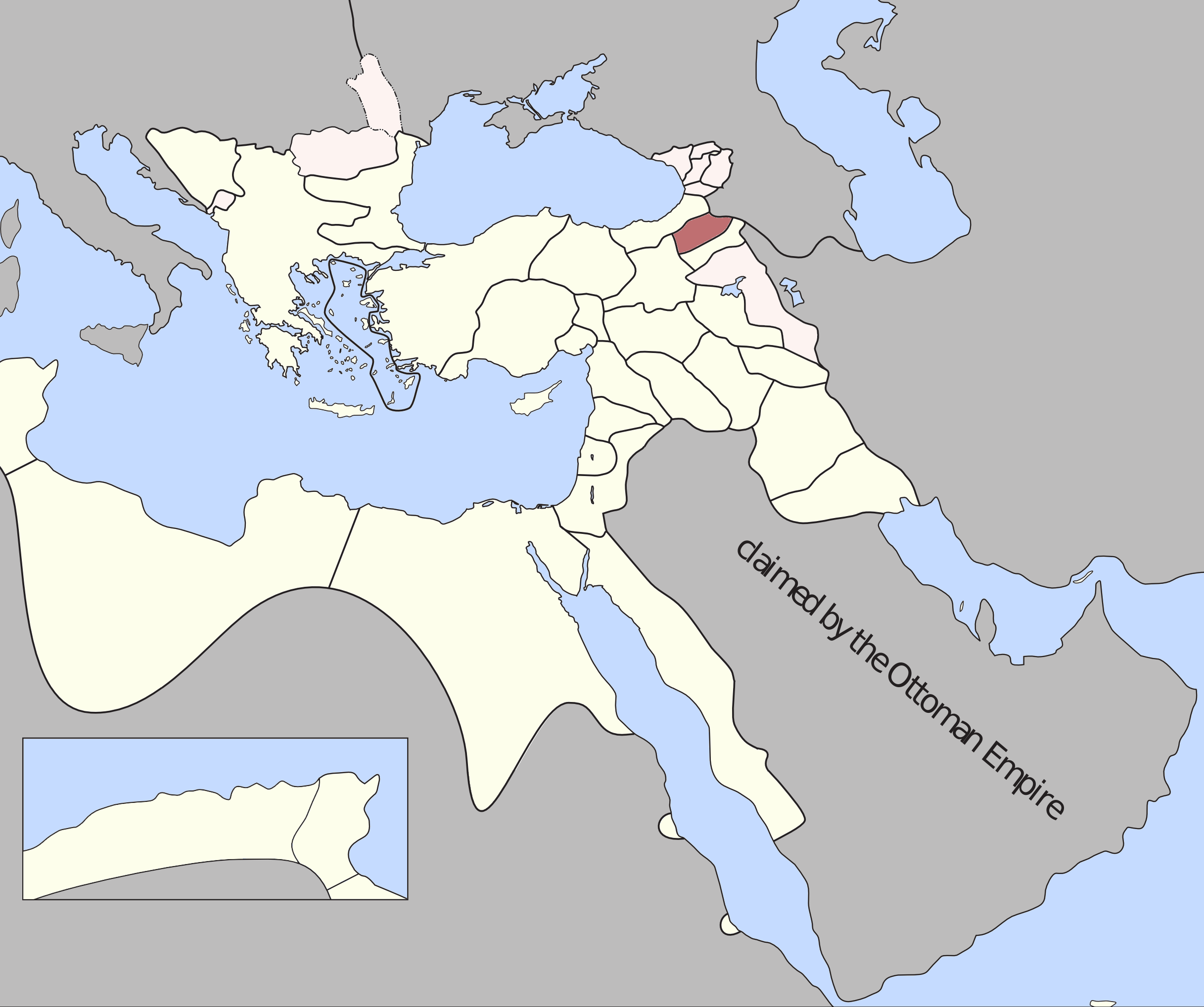 XY Eyalet, Ottoman Empire (1795). Source: A Brief History of the Late Ottoman Empire at Google Books By M. Sukru Hanioglu, Figure 1